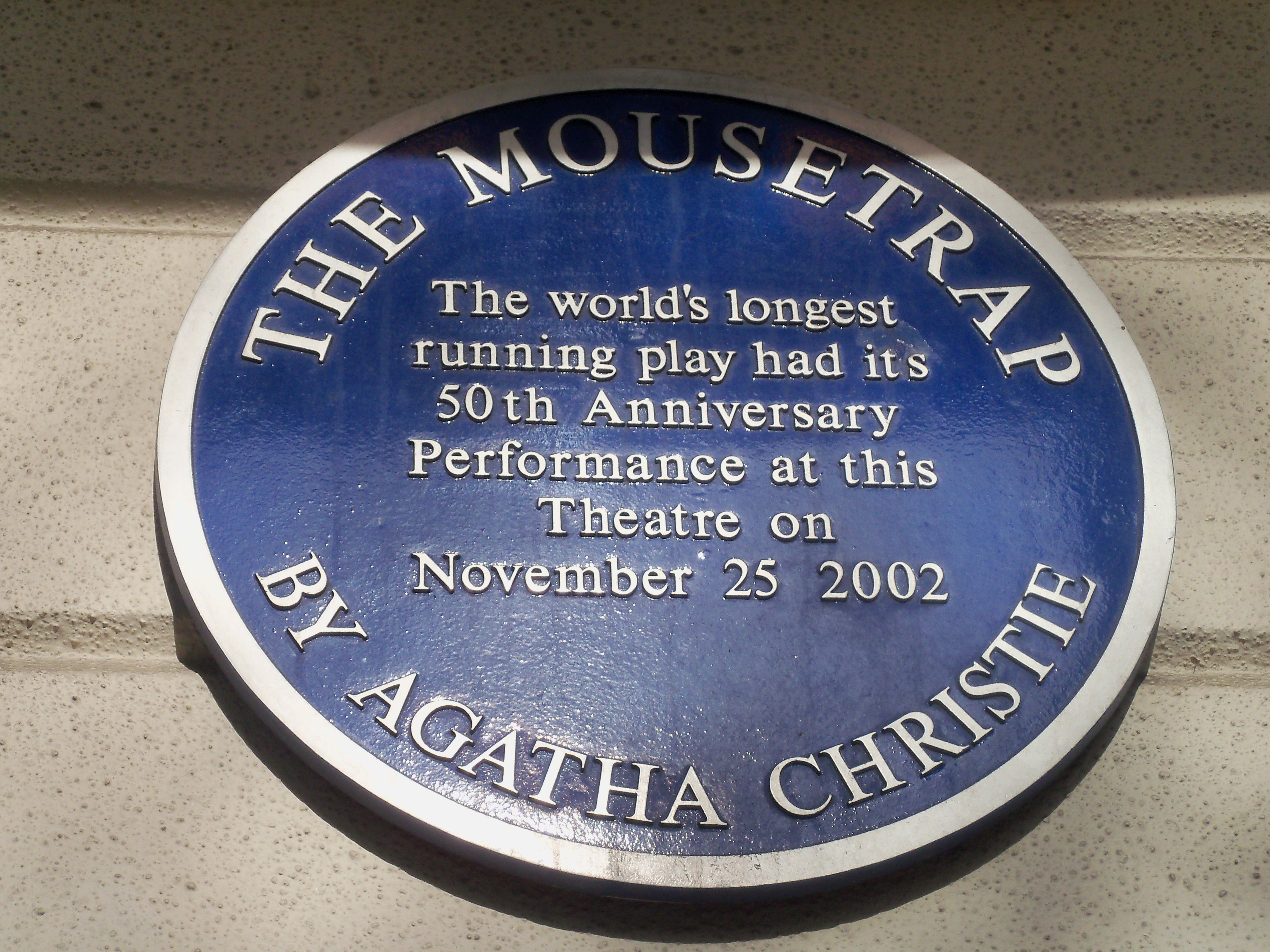 A blue plaque on the front wall of St Martin's Theatre, Covent Garden, London.